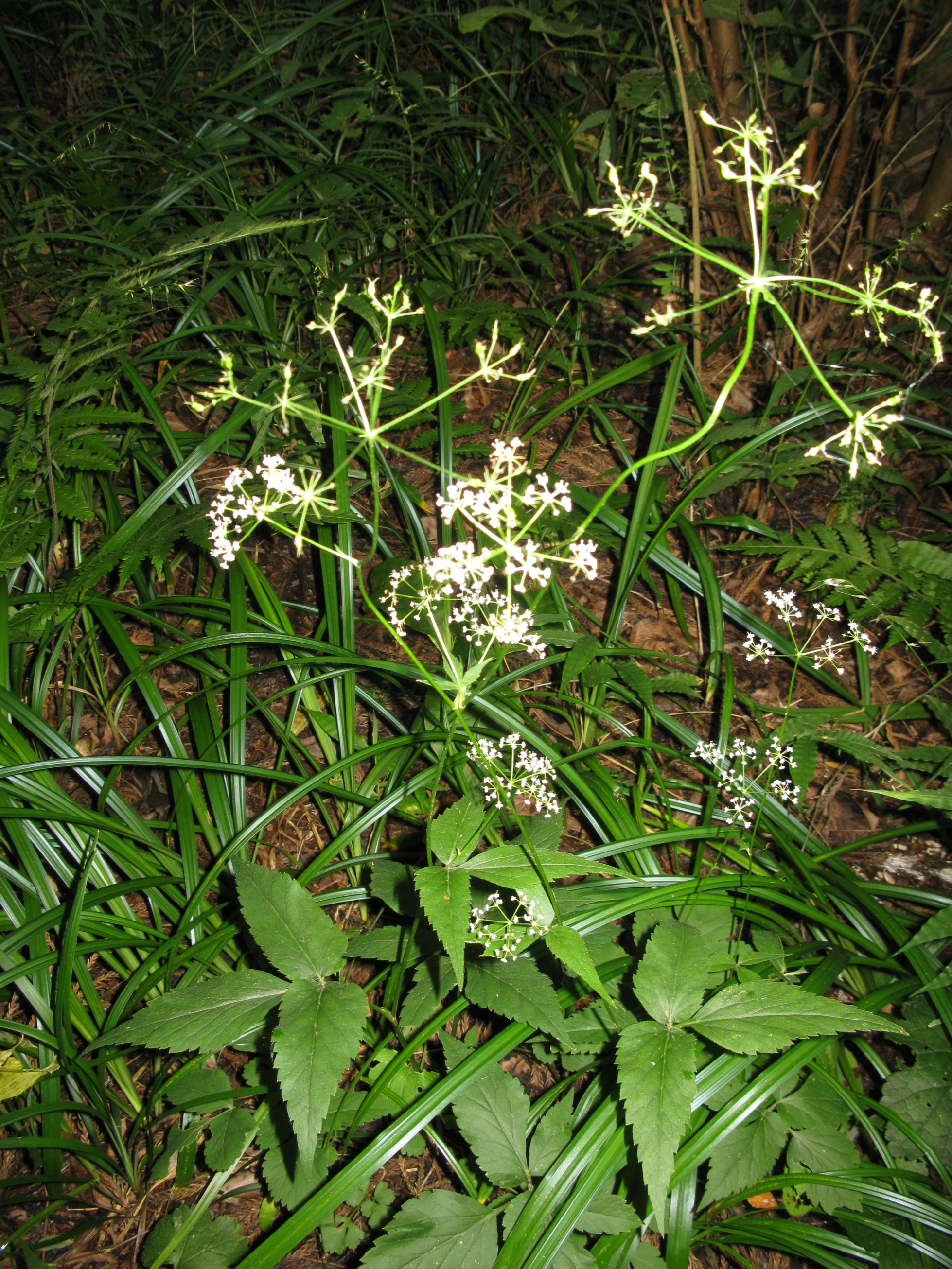 Spuriopimpinella calycina, Aizu area, Fukushima pref., Japan